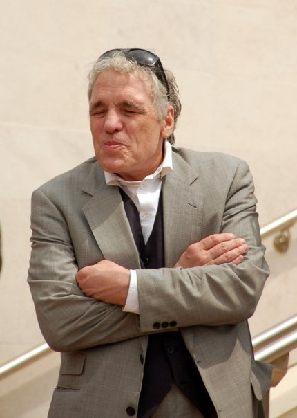 Abel Ferrara at the Cannes film festival